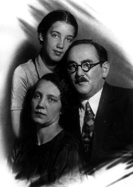 Hungarian communist leader and later Prime Minister Imre Nagy, his wife Mária Égető and their only daughter Erzsébet Nagy in 1938, during exile at Moscow, Soviet Union.